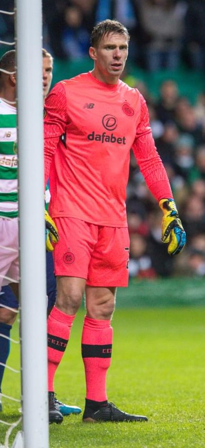 16.02.2018. Великобритания, Глазго, «Селтик Парк». Лига Европы УЕФА 2017/18, «Селтик» — «Зенит».